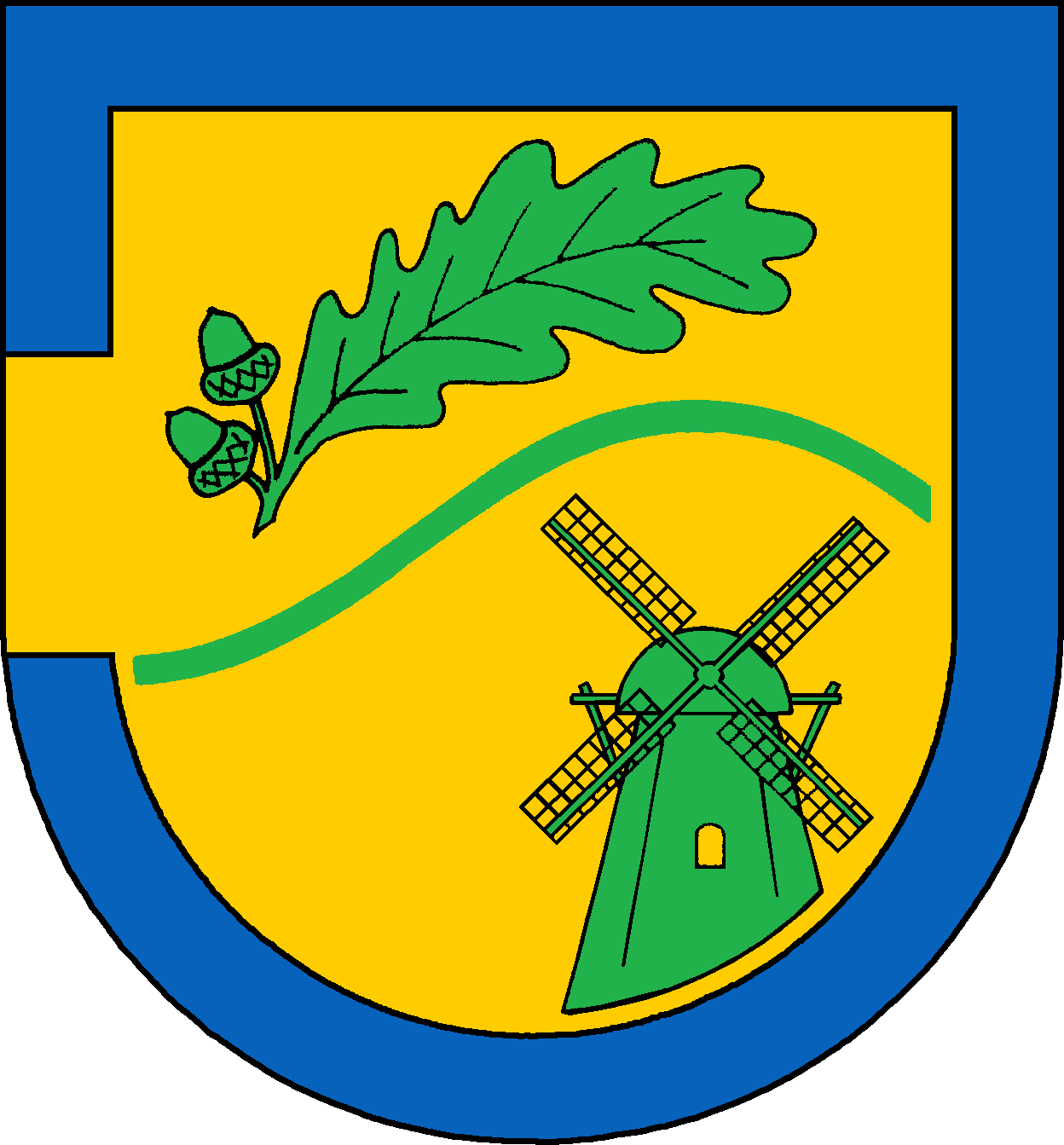 Coat of arms of the municipality Joldelund in Schleswig-Holstein, Germany.